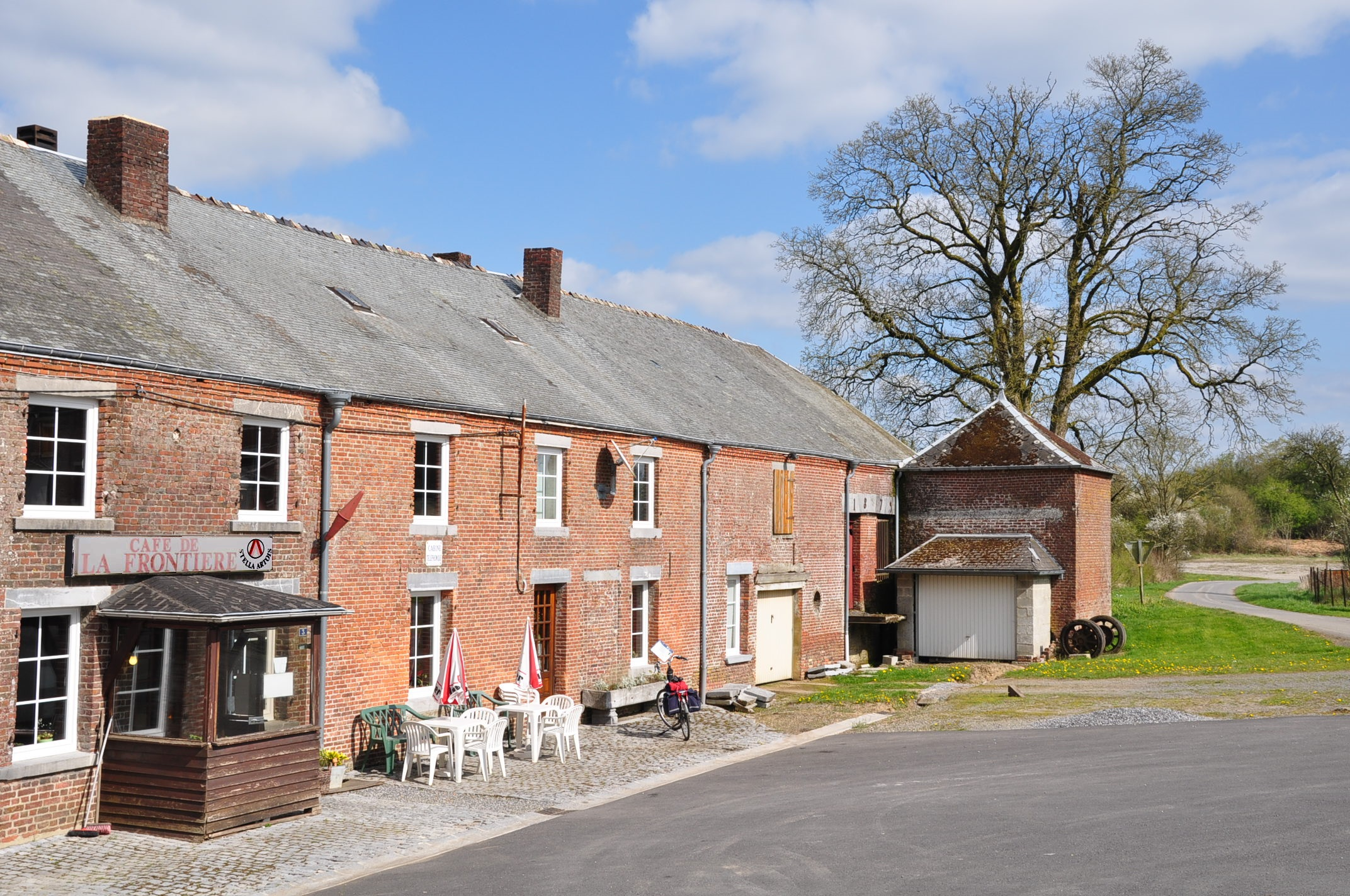 The "Café de la Frontière" (Frontier Bar) in Regniowez (Ardennes department, Champagne-Ardenne region, France).